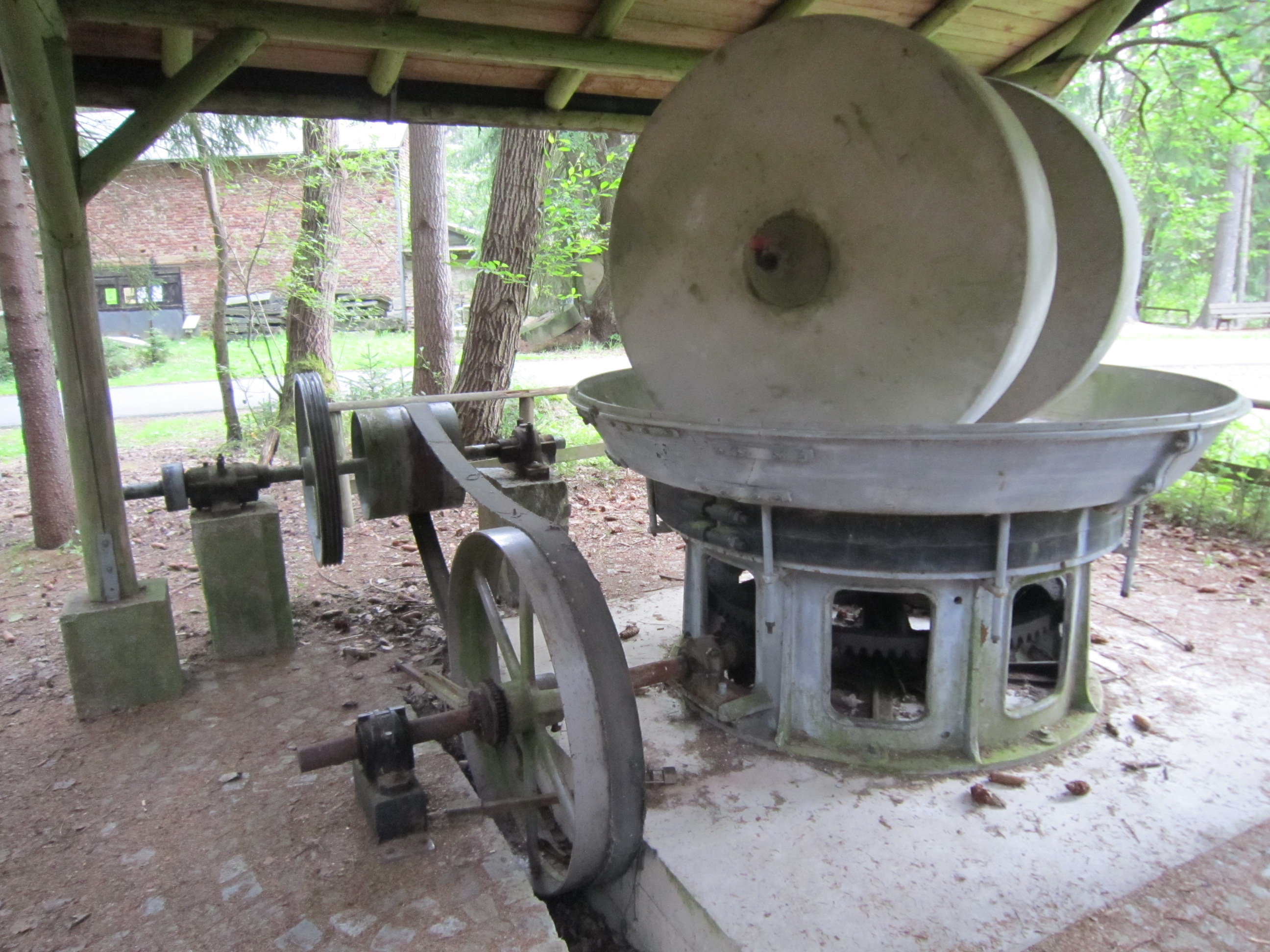 Museum quarry near Selb